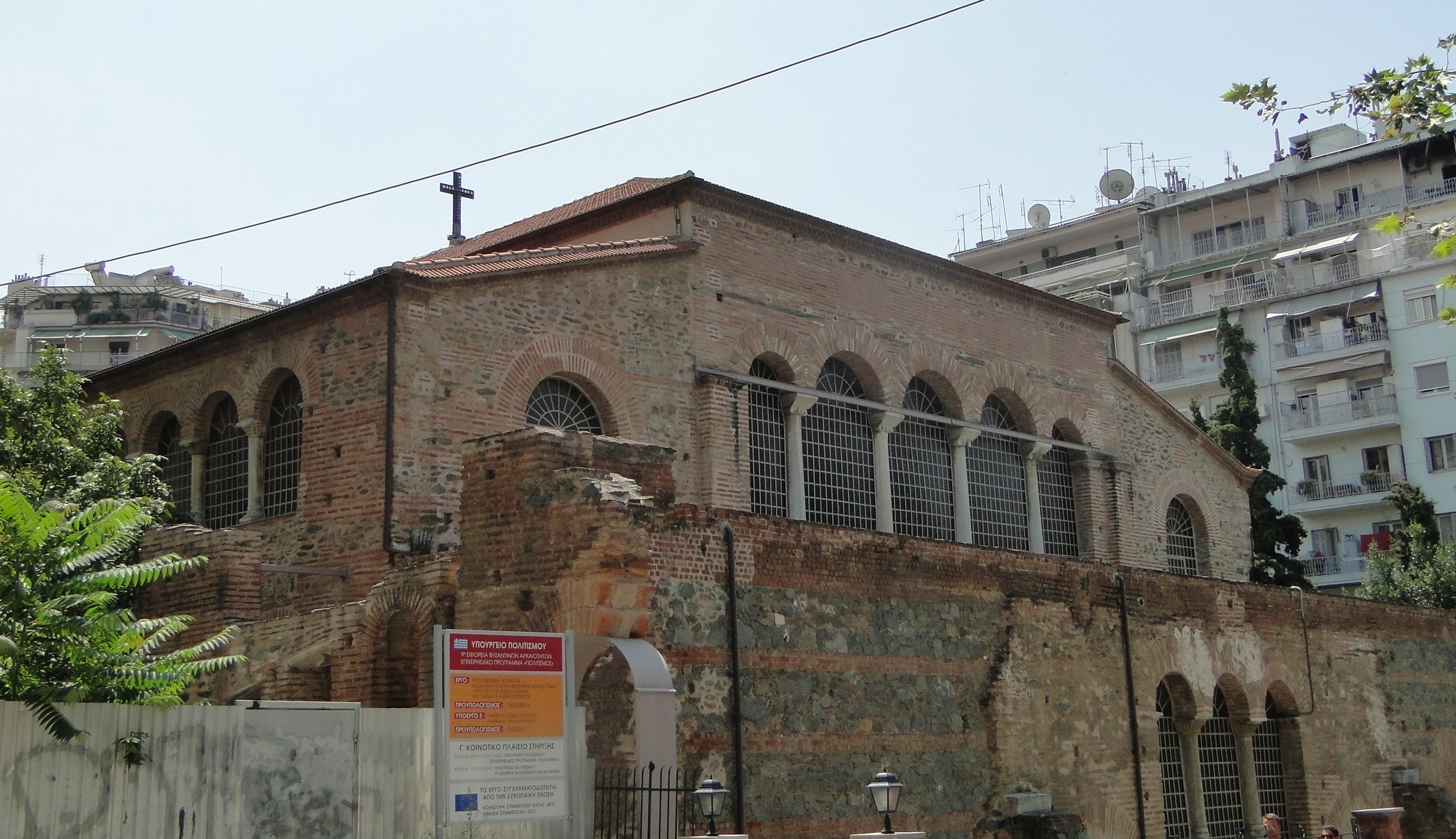 View of the church of the Acheropoietos from the west.